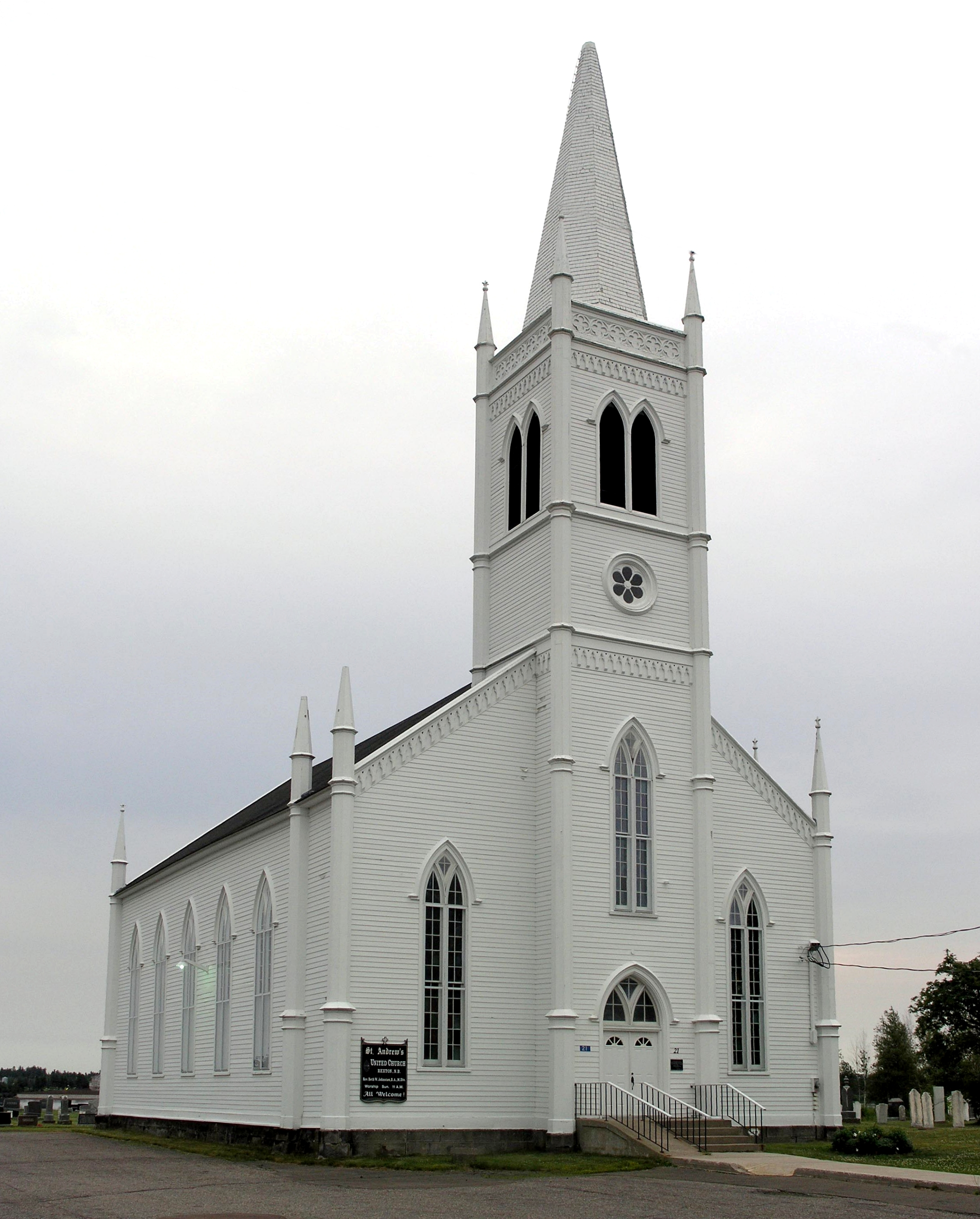 Rexton United Church, Rexton NB Canada. Retouched version of photo listed below. the image ws cropped, lightened and a telephone wire was removed.